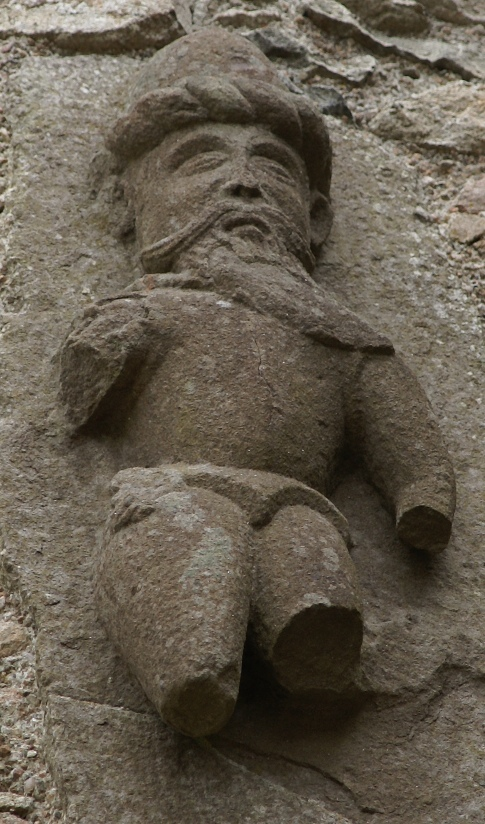 Tolquhon Castle, Aberdeenshire, Scotland - figure of William Forbes on the gatehouse